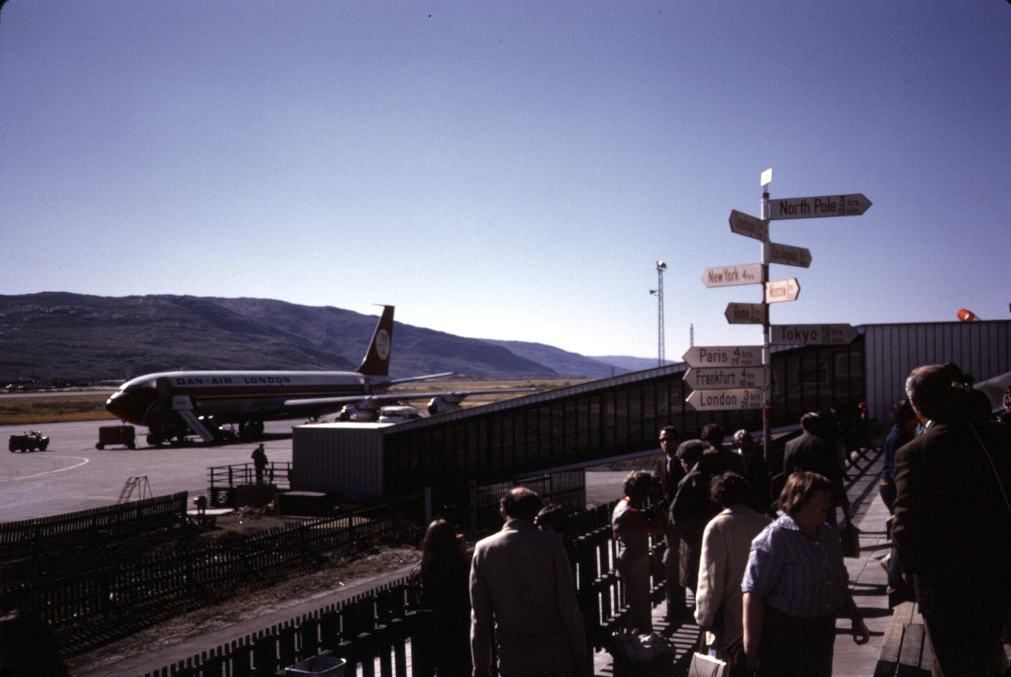 Dan-Air 707 stops to refuel at Sondrestrom Air Base, Greenland, in August 1974, on it's way from London-Gatwick to Vancouver.